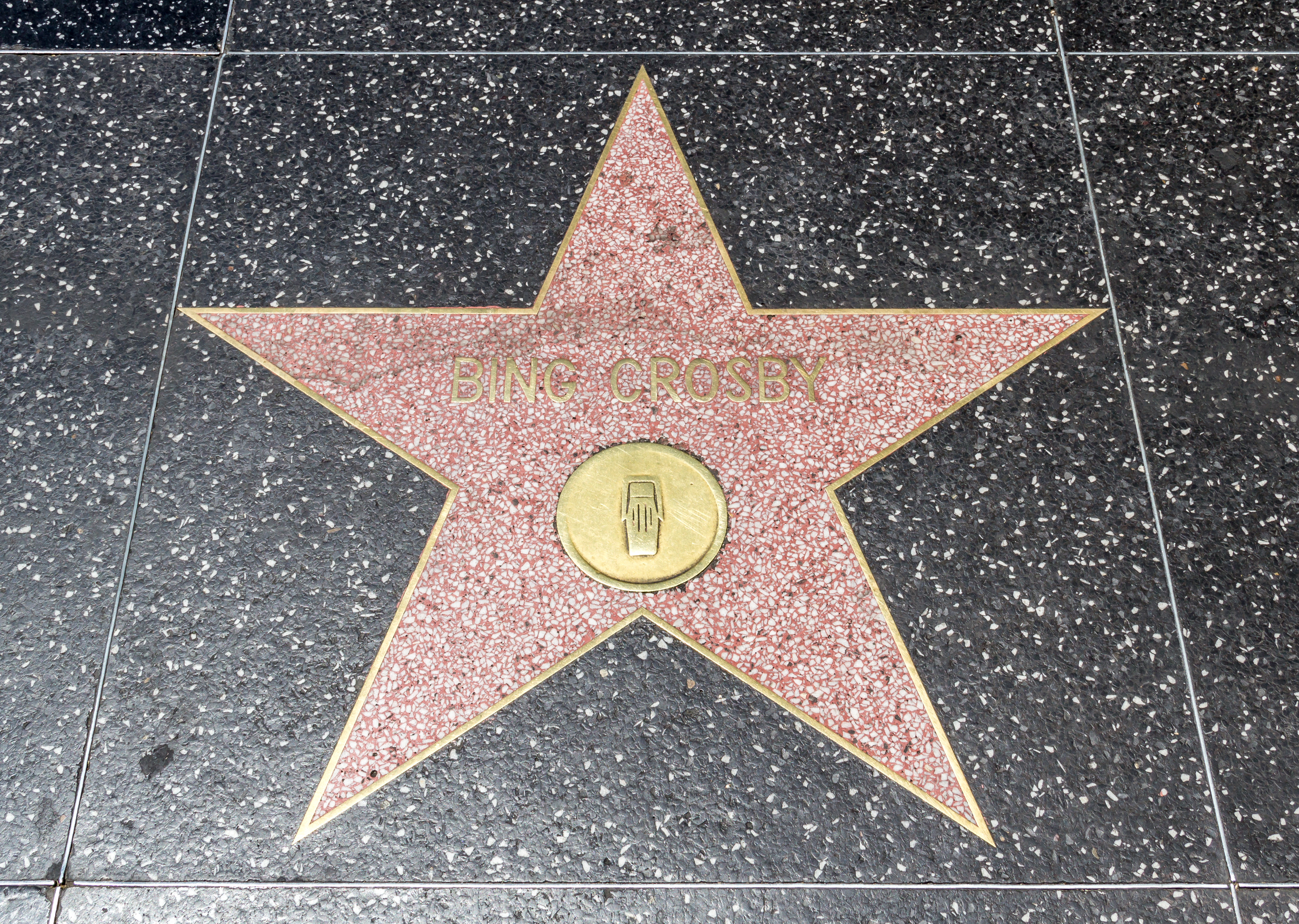 Star “Bing Crosby” at the Hollywood Boulevard in Los Angeles, California, USA Sculpture TitleHollywood Walk of FameArtistOliver WeismullerDate1960